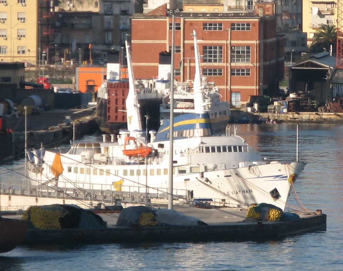 Passenger Ship Leviathan (ex Wilhelmshaven)